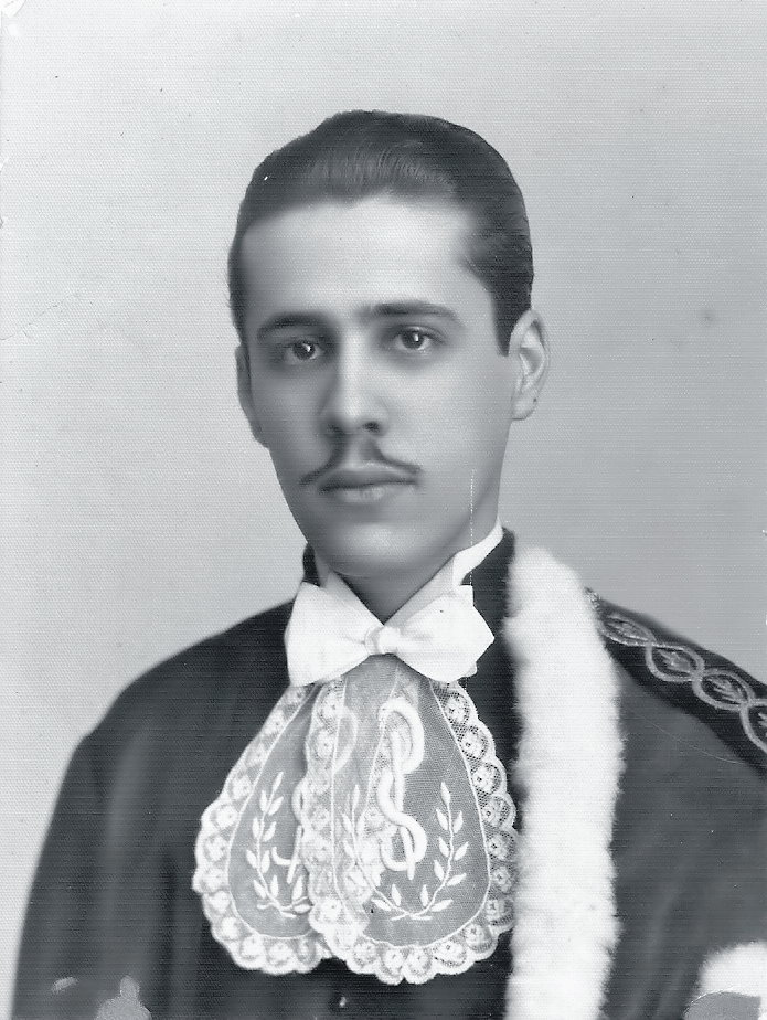 Arquivo Memorial Dr. Romildo Borges Mendes